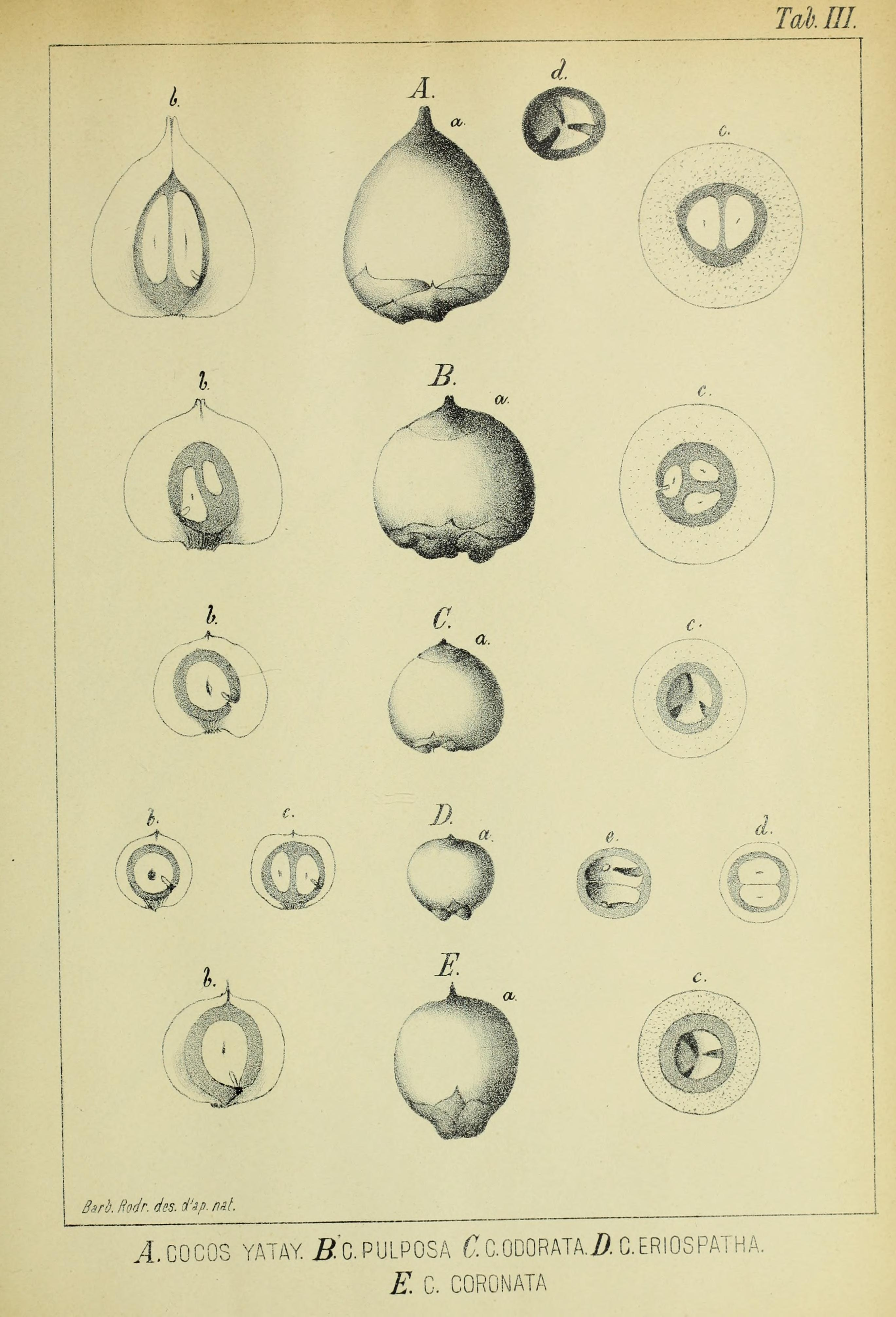 Title: Contributions du Jardin botanique de Rio de Janeiro Year: 1901 (1900s) Authors: Jardim Botânico do Rio de Janeiro; Rodrigues, J. Barbosa (João Barbosa), 1842-1909 Subjects: Botany Publisher: Rio de Janeiro : L'Etoile du Sud Text Appearing Before Image: Tab.ni. Text Appearing After Image: Barb. ftodr. des. d'sp. mi A COCOS YATAY S'c.PULPOSA CC.ODORATA.iZ C.ERIO'SPAl E. G. CORONATA